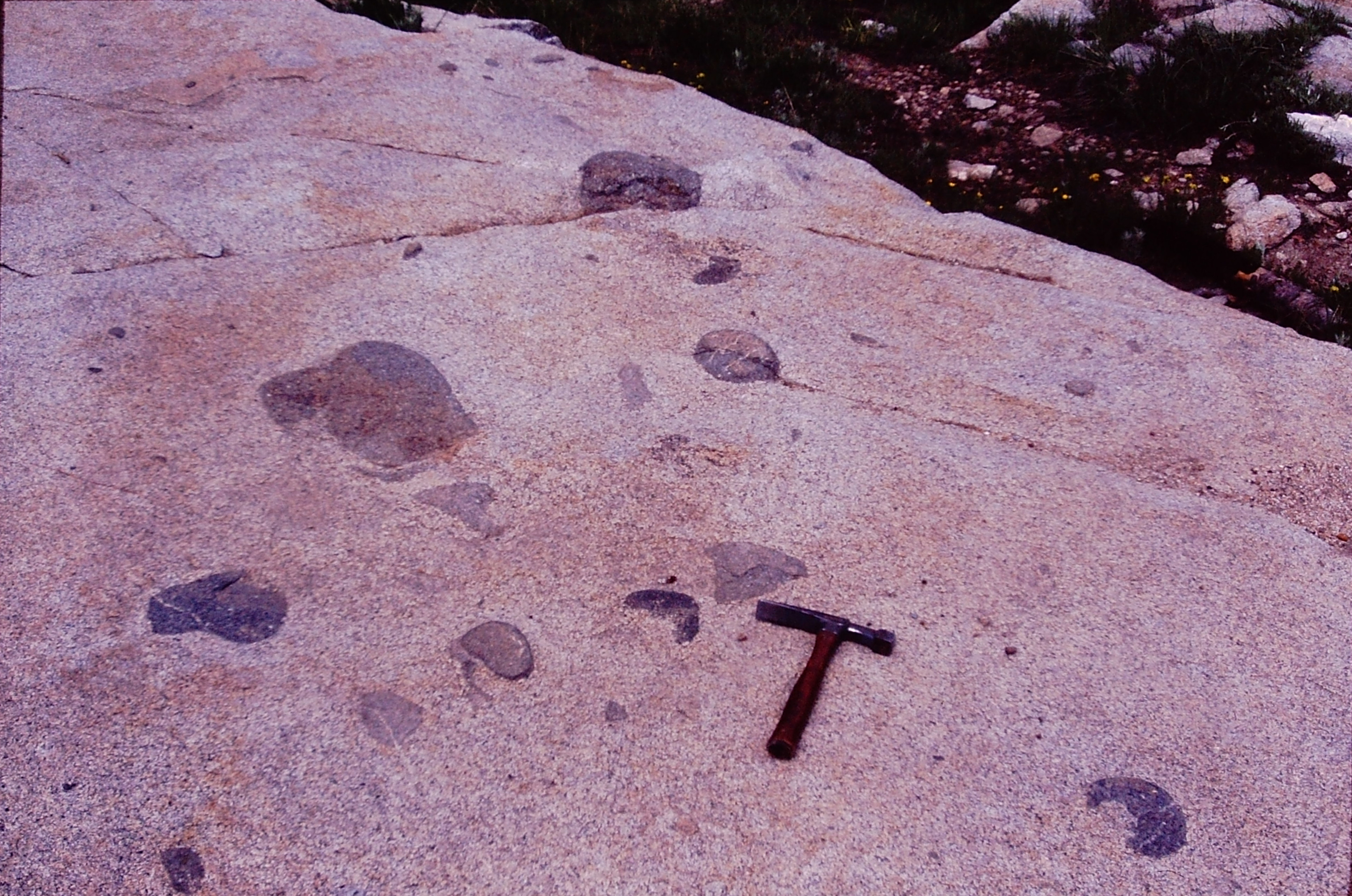 Xenoliths in the Alta Stock, a Tertiary granodiorite pluton, located at the east (upper) end of Little Cottonwood Canyon, Utah. Taken July 1997. Rock hammer for scale.